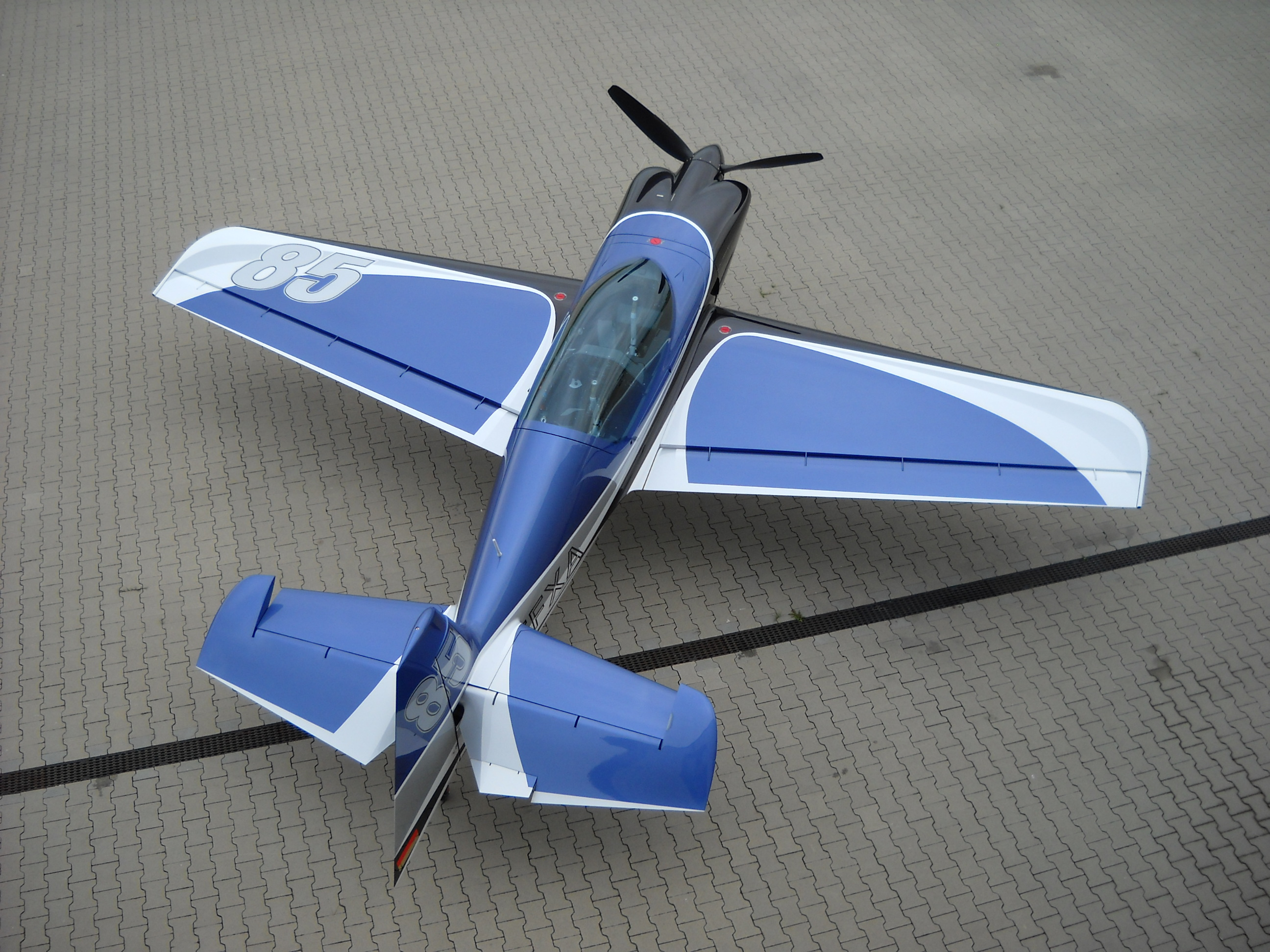 XA 42 in front of XtremeAir GmbH